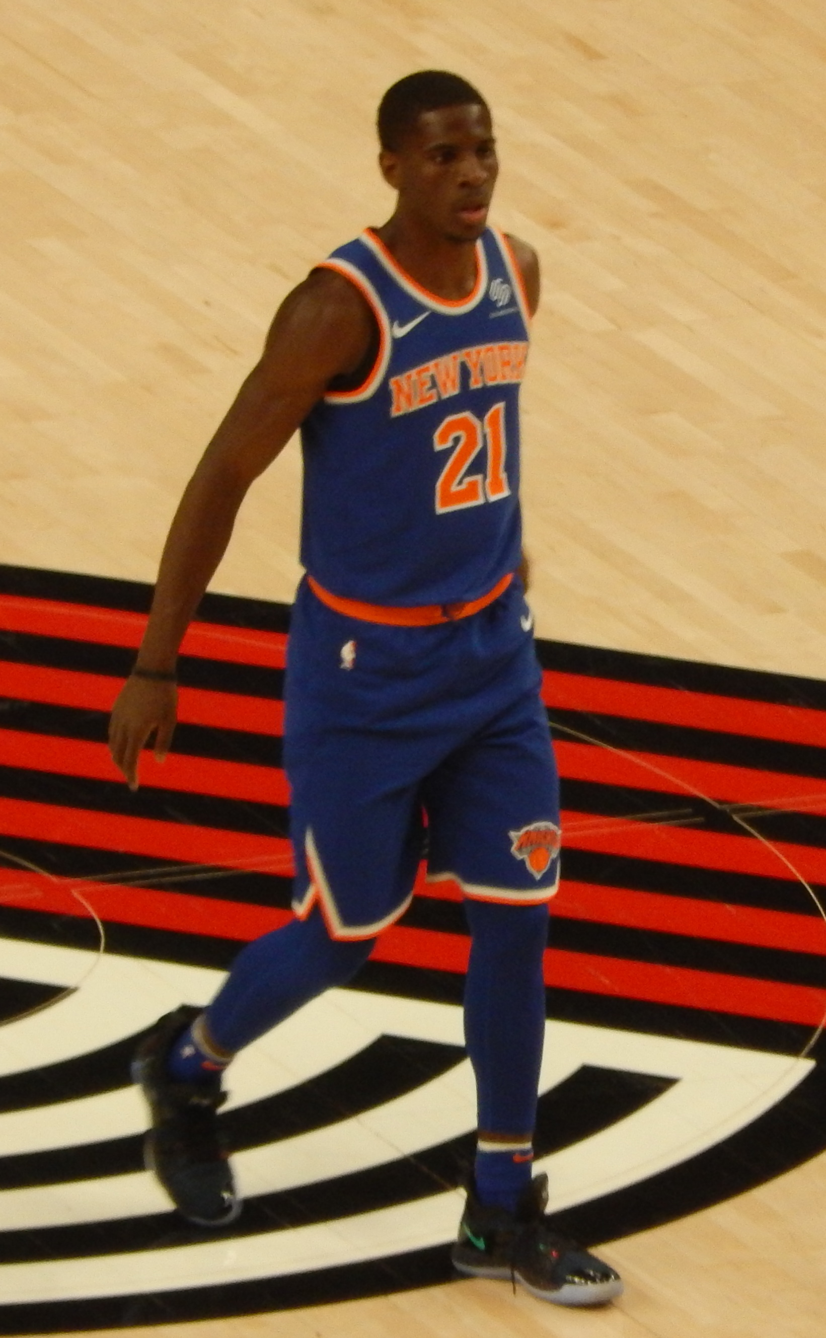 Damyean Dotson #21 of the New York Knicks against the Portland Trail Blazers on March 6, 2018 at Moda Center in Portland, Oregon.